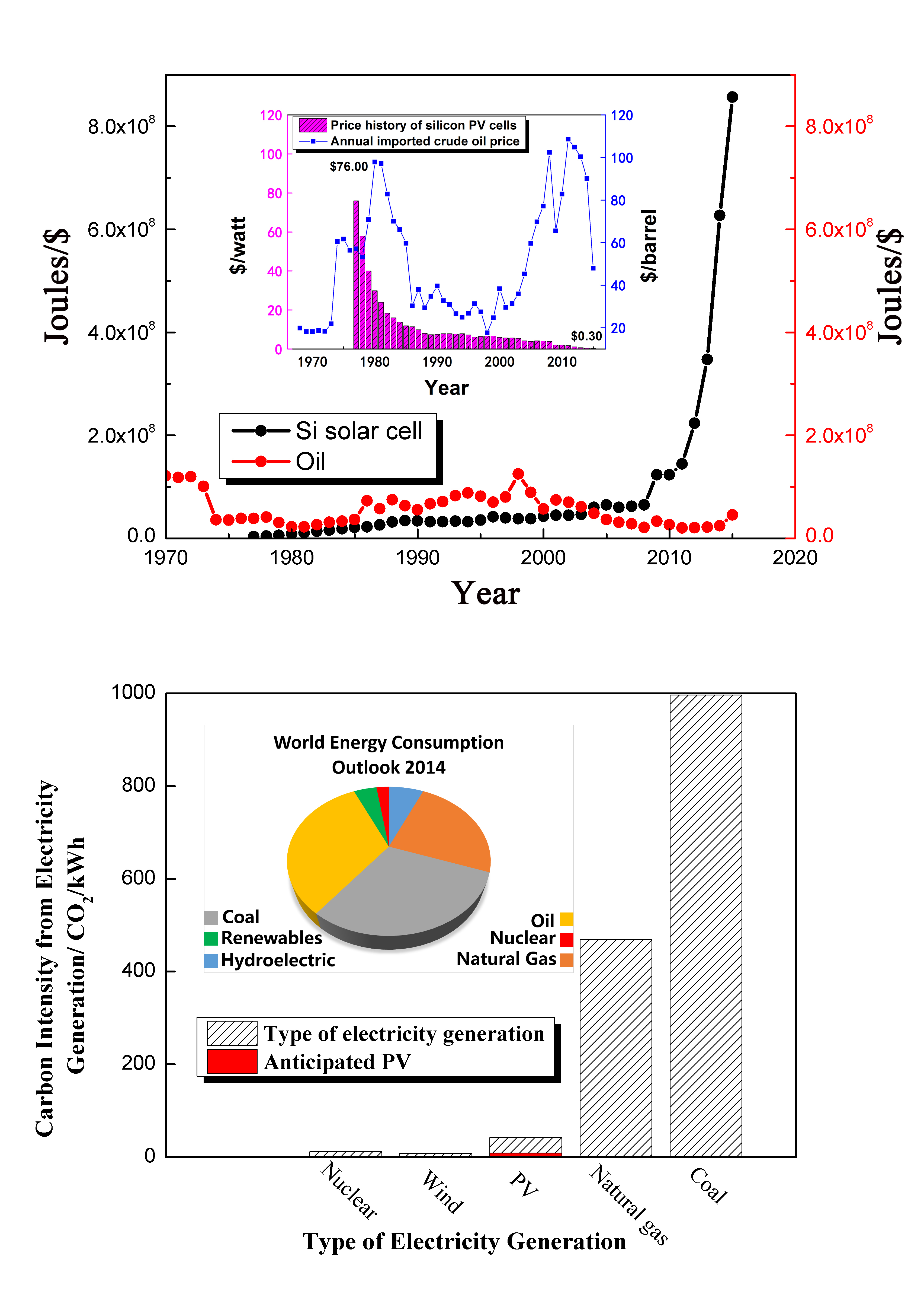 CO2 mitigation and price